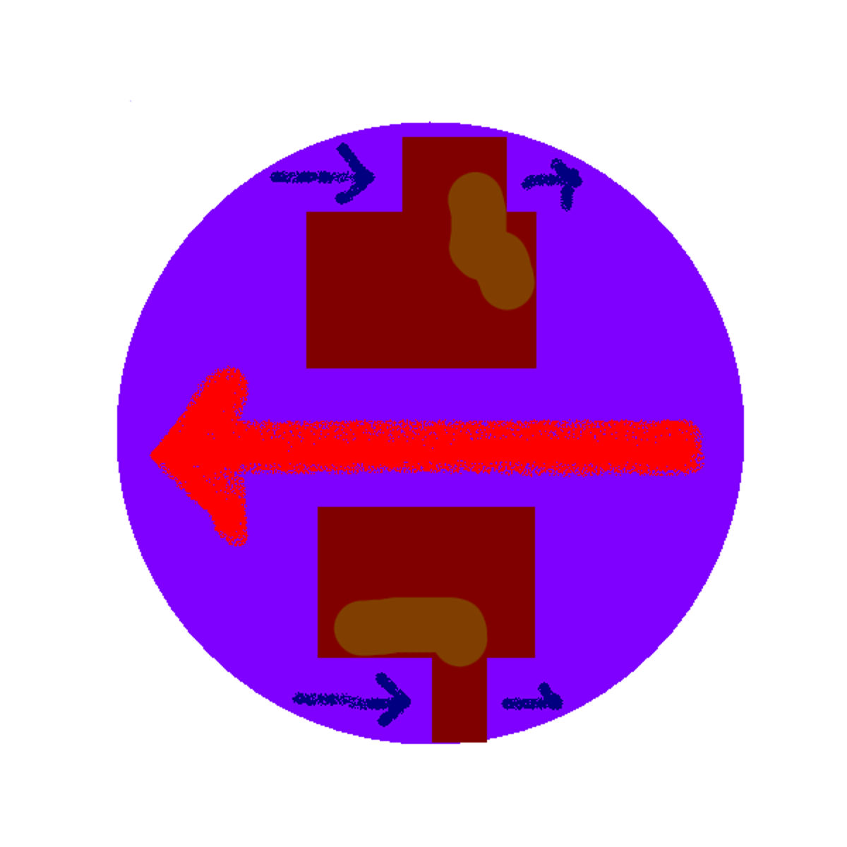 Sea currents on "hot house" state in Earth. Continents does not prevent circulation of warm ocean current in equator.